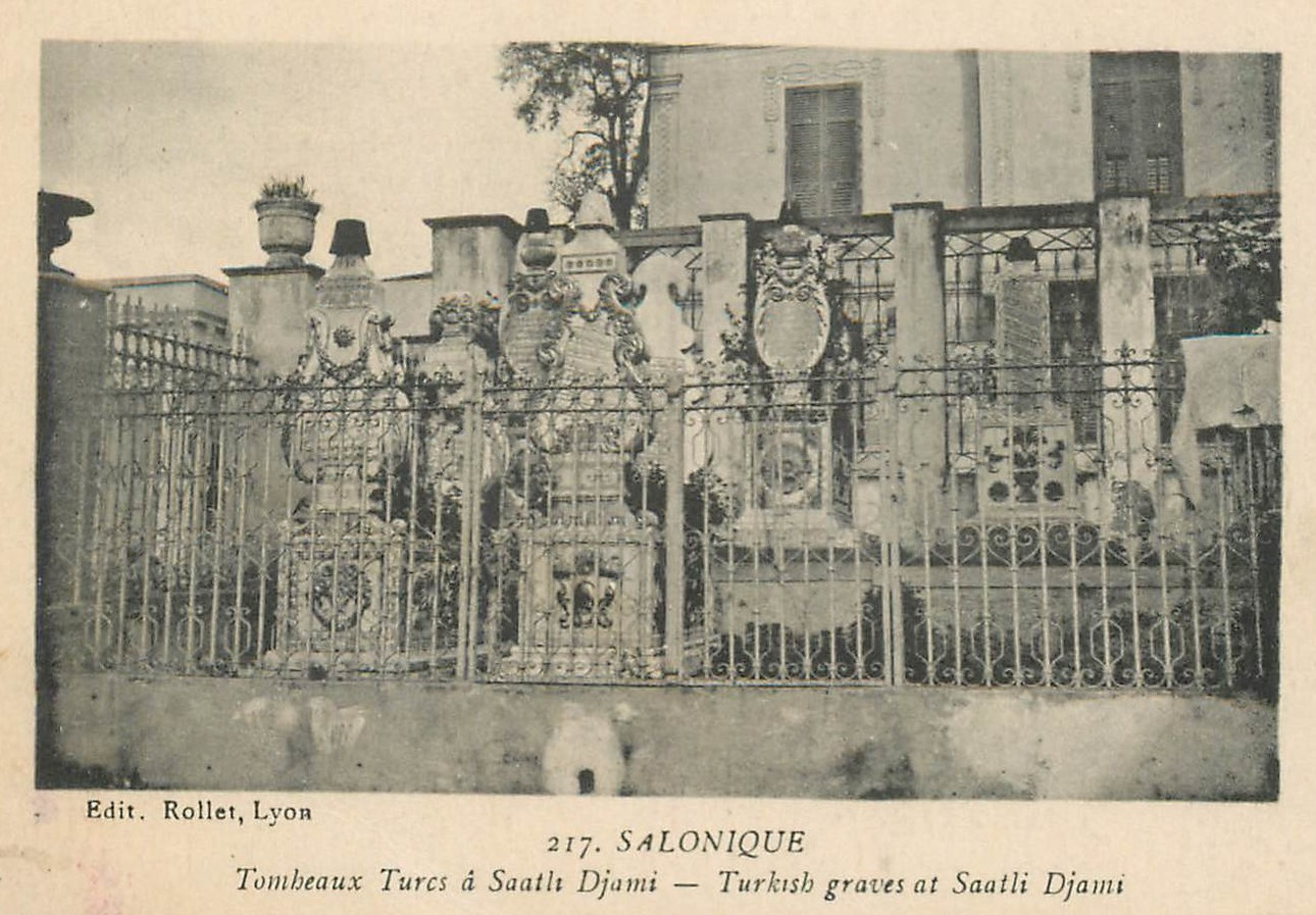 North side of the Saatli mosque in Thessaloniki, with a view of the Turkish cemetery. The 2 windows of the building in the background correspond to the room where the consuls of France and Germany were murdered on May 6th, 1876 (per Sempi 2000 pg 212)